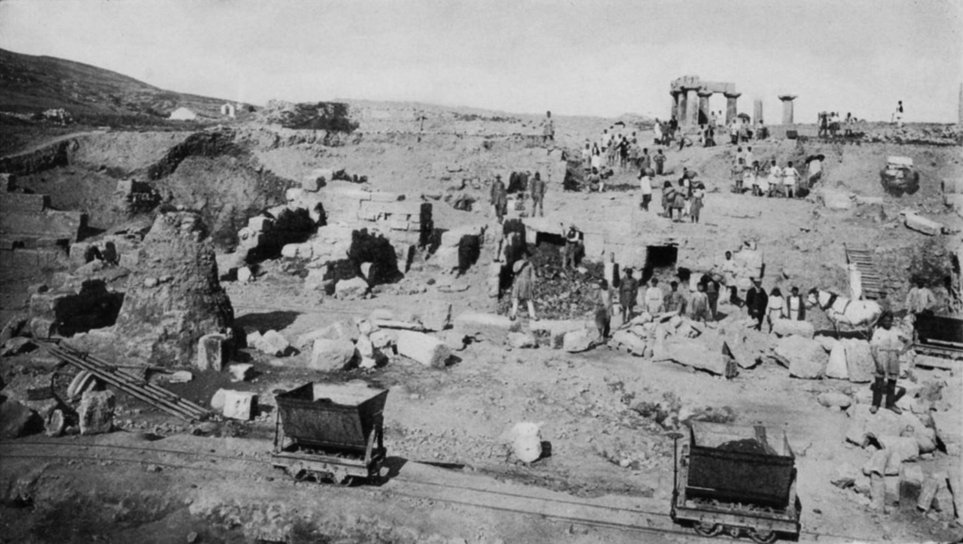 Original caption: "Corinth in 1898: General view of excavations"